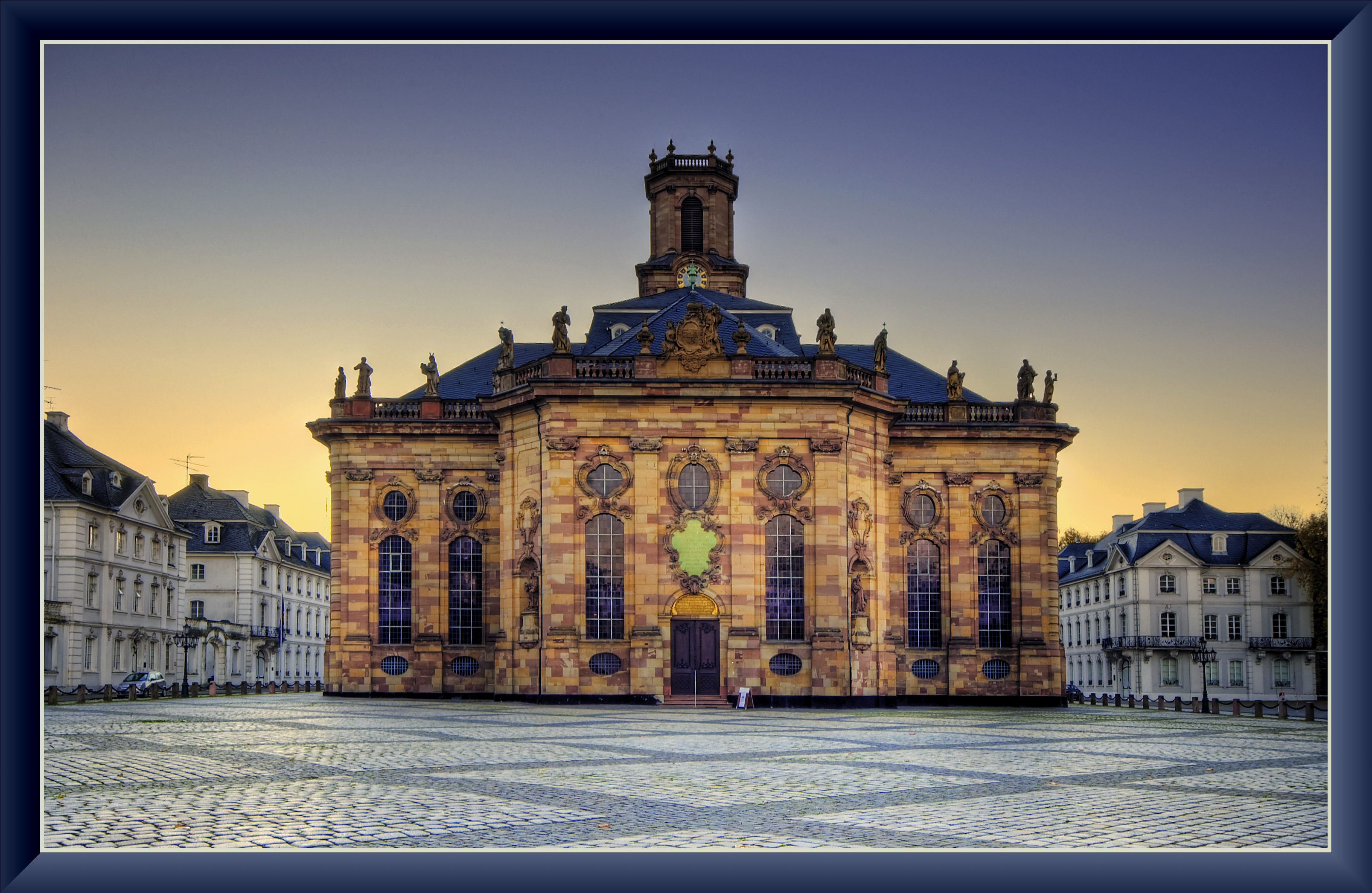 Klick here for a large view!